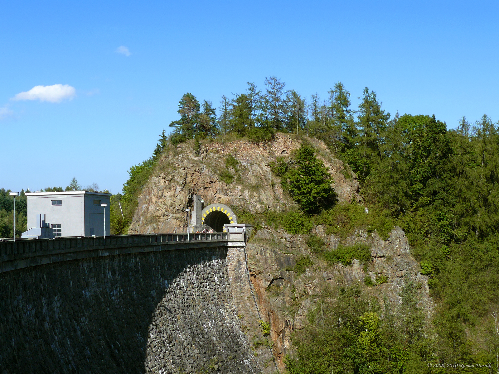 Seč dam